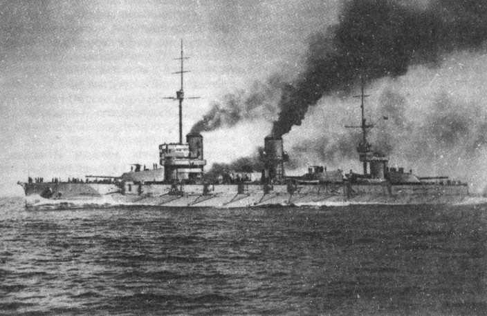 Battleship Imperatritsa Mariya.